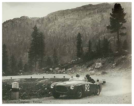 Count Paolo Marzotto and Marino Marini won the V Coppa Dolomiti on Sunday 13 July 1952 in entry #92, which was Marzotto's own 1952 Ferrari 225 Sport Vignale Spyder s/n 0172ET.[1]